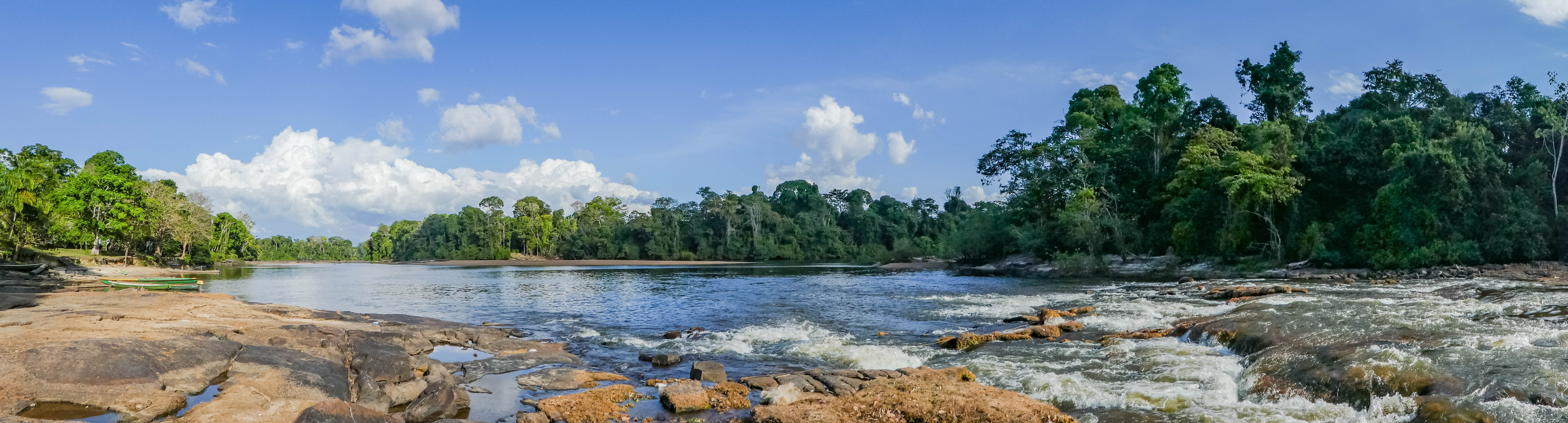 Panoramic view of the Suriname river near Gunsi